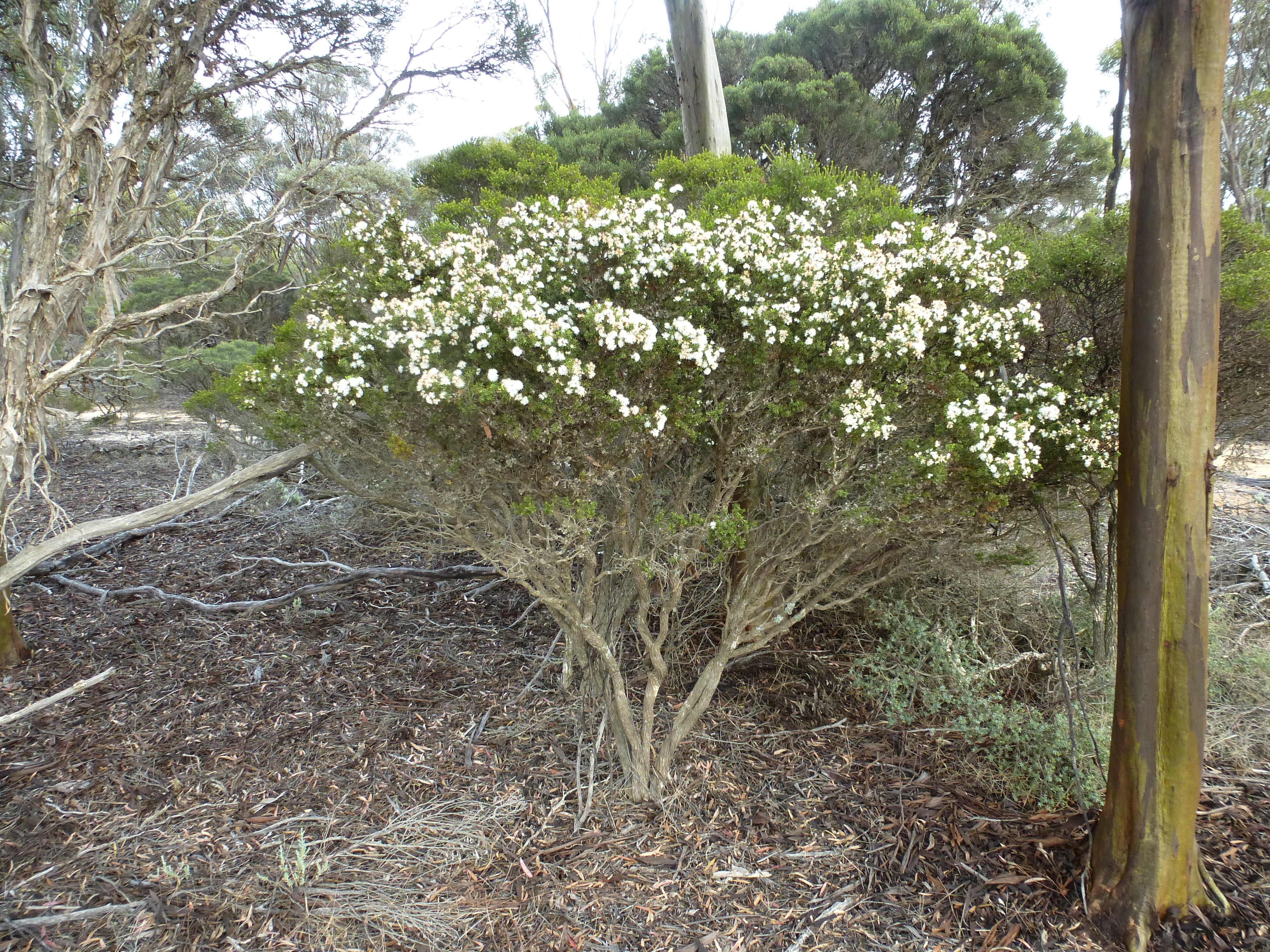 Melaleuca bromelioides near Ravensthorpe